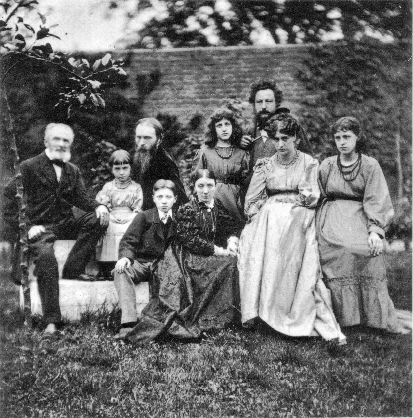 The families of William Morris and Edward Burne-Jones, photographed by Frederick Hollyer in the garden at The Grange, Burne-Jones's home in Fulham. Left to right: Edward Jones (Burne-Jones's father), Margaret Burne-Jones, Edward Burne-Jones, Philip Burne-Jones, Georgiana Burne-Jones, May Morris, William Morris, Jane Morris, and Jenny Morris. Platinotype photograph, 14 x 13.1 cm.